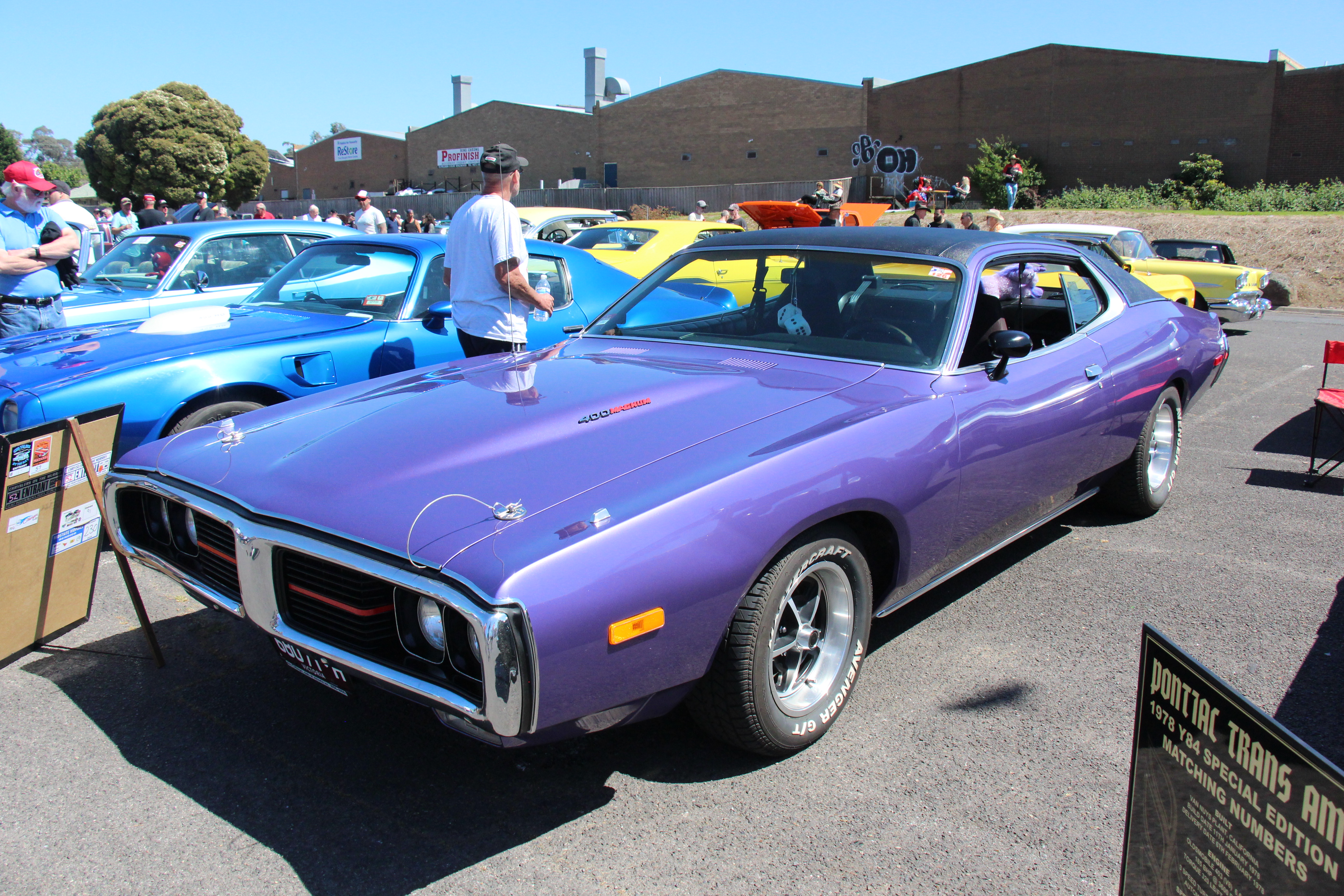 Dodge offered four different wheelbases in 1973. The full size C body Dodge was the Polara, Polara Custom and Monaco. The compact A body was the Dart, in base, Custom, Sport and Swinger. The Challenger was built on Chryslers E body pony car platform. The mid size B body was the 4 door Sedan or Wagon Coronet and 2 door Charger. The Coronet was available inbase or Coronet Custom. The Charger in base, luxury SE or the sporty Rallye. For 1973, the Chargers received all new sheet metal, though at first glance only the rear roof C-Pillars looked different, the Charger was in fact longer, wider, and slightly taller than the 71/72 cars. The SE models no longer had hideaway headlights, but had a new roof treatment that had a triple opera windows surrounded by a vinyl roof. Engines; 150hp 318, 240hp 340, 260hp 400, 280hp 440 V8s